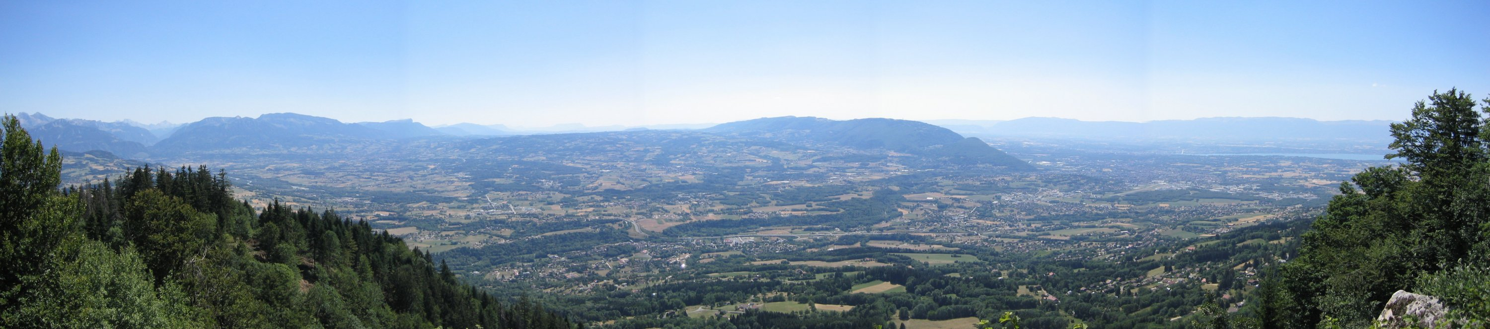 Annemasse (France) and Geneva (Switzerland) area.